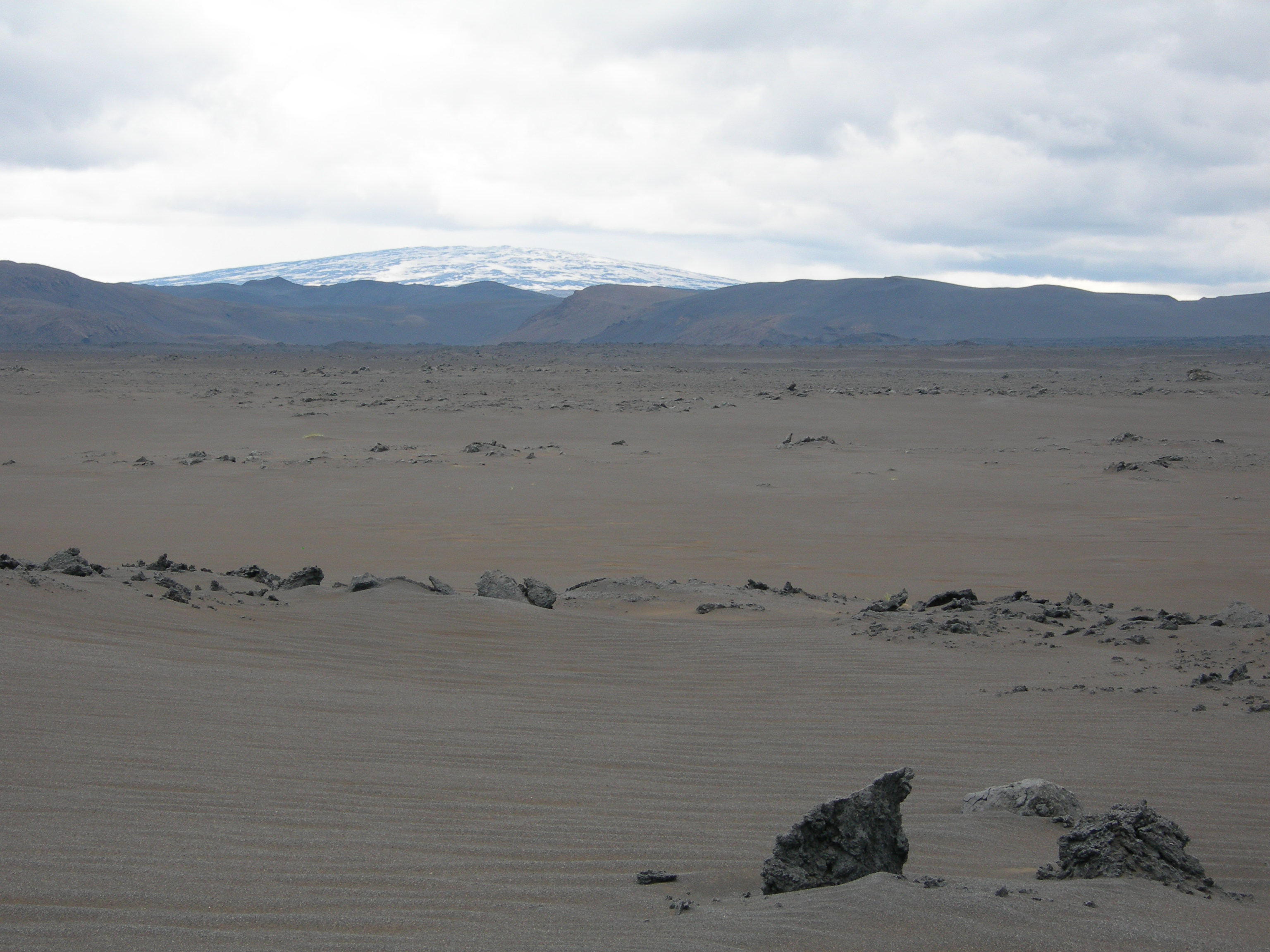 Post-glacial monogenetic shield volcano Trölladyngja, north Iceland highland.